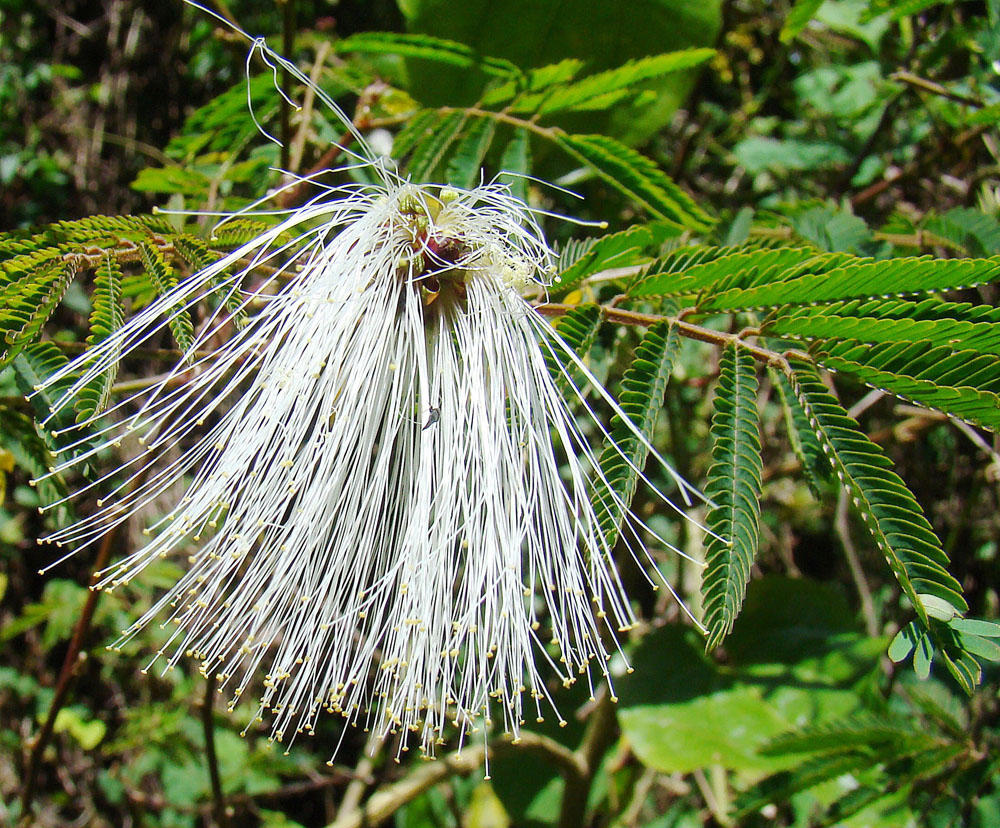 Photo from western Panama. In context at